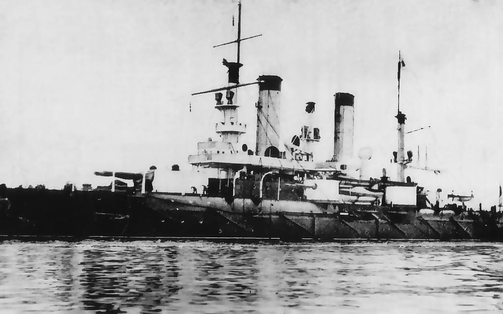 Battleship Petropavlosk